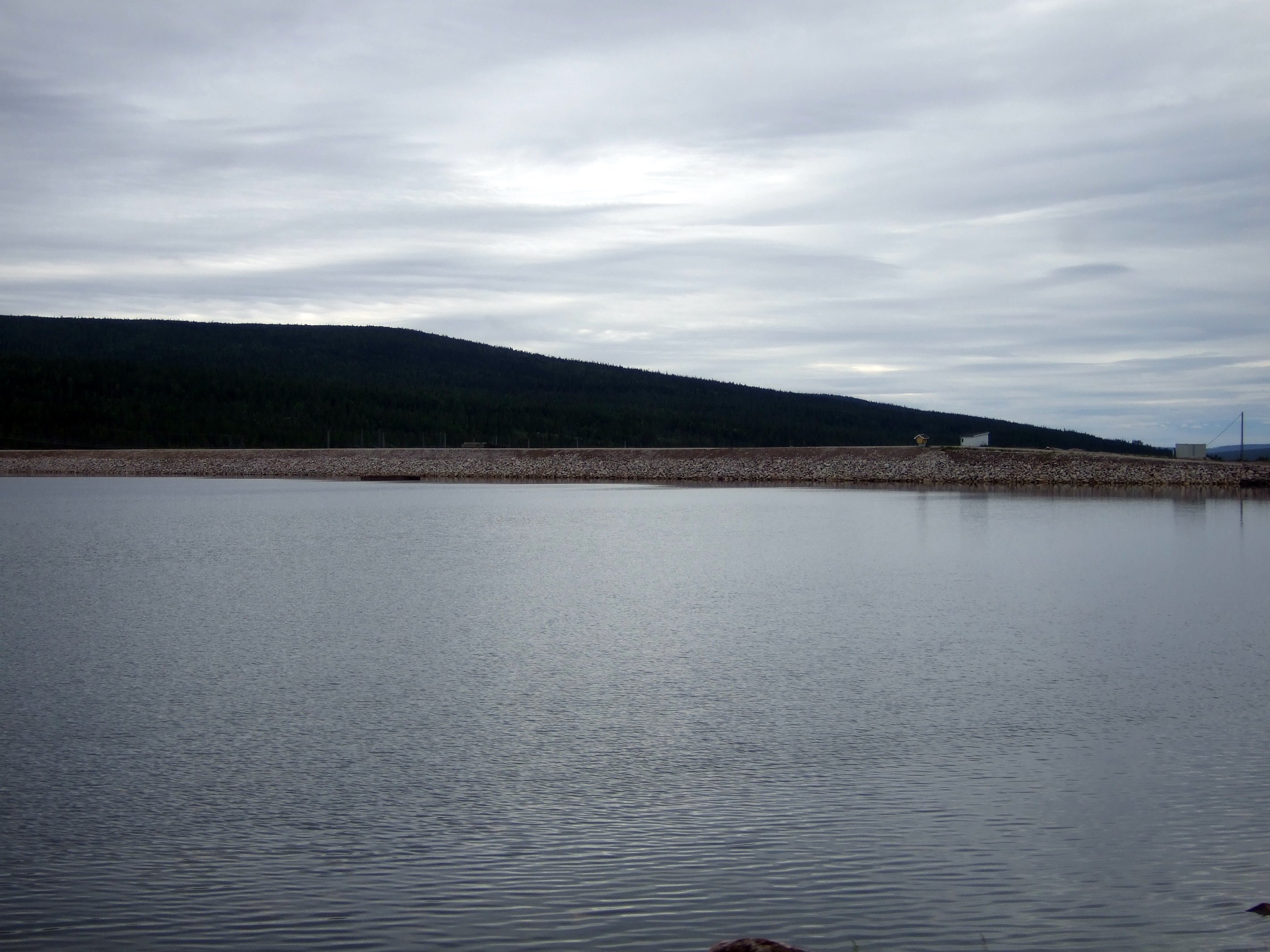 Dam at the hydroelectric power station Harsprånget in Lappland, Sweden